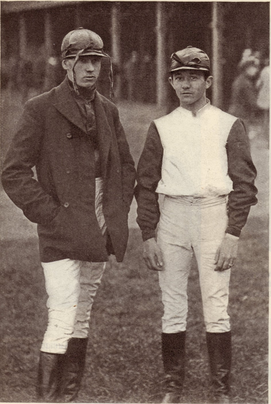 American jockeys Henry "Skeets" Martin (left) and Tod Sloan at Morris Park Racetrack in 1899 from Munsey's Magazine, Volume XXIV, October 1900 - March 1901, page 358.